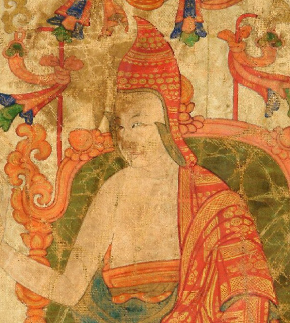 Shantideva; painting 19th century